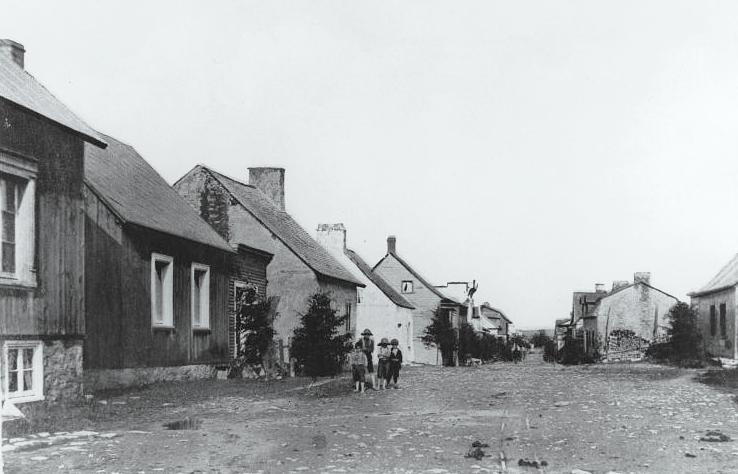 Print, Street in Kahnawake, QC, about 1910, Anonymous, Coloured ink on paper mounted on card - Photolithography, 8 x 13 cm